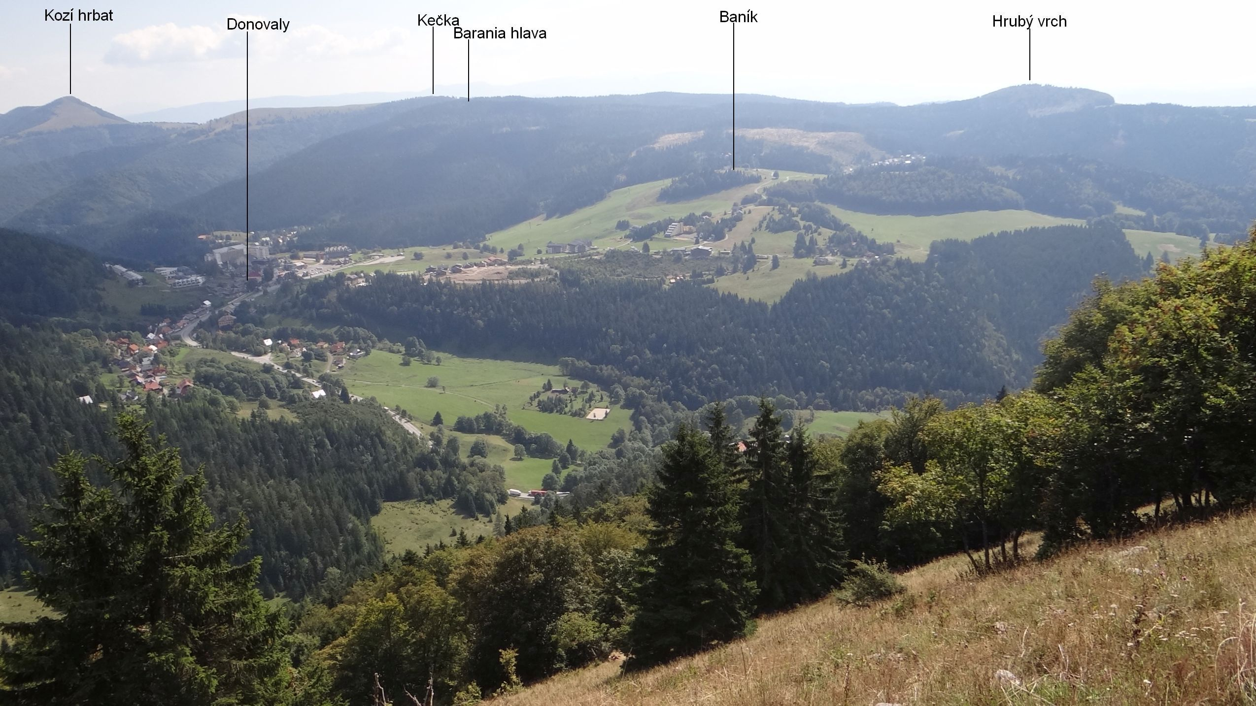 View from Zvolen